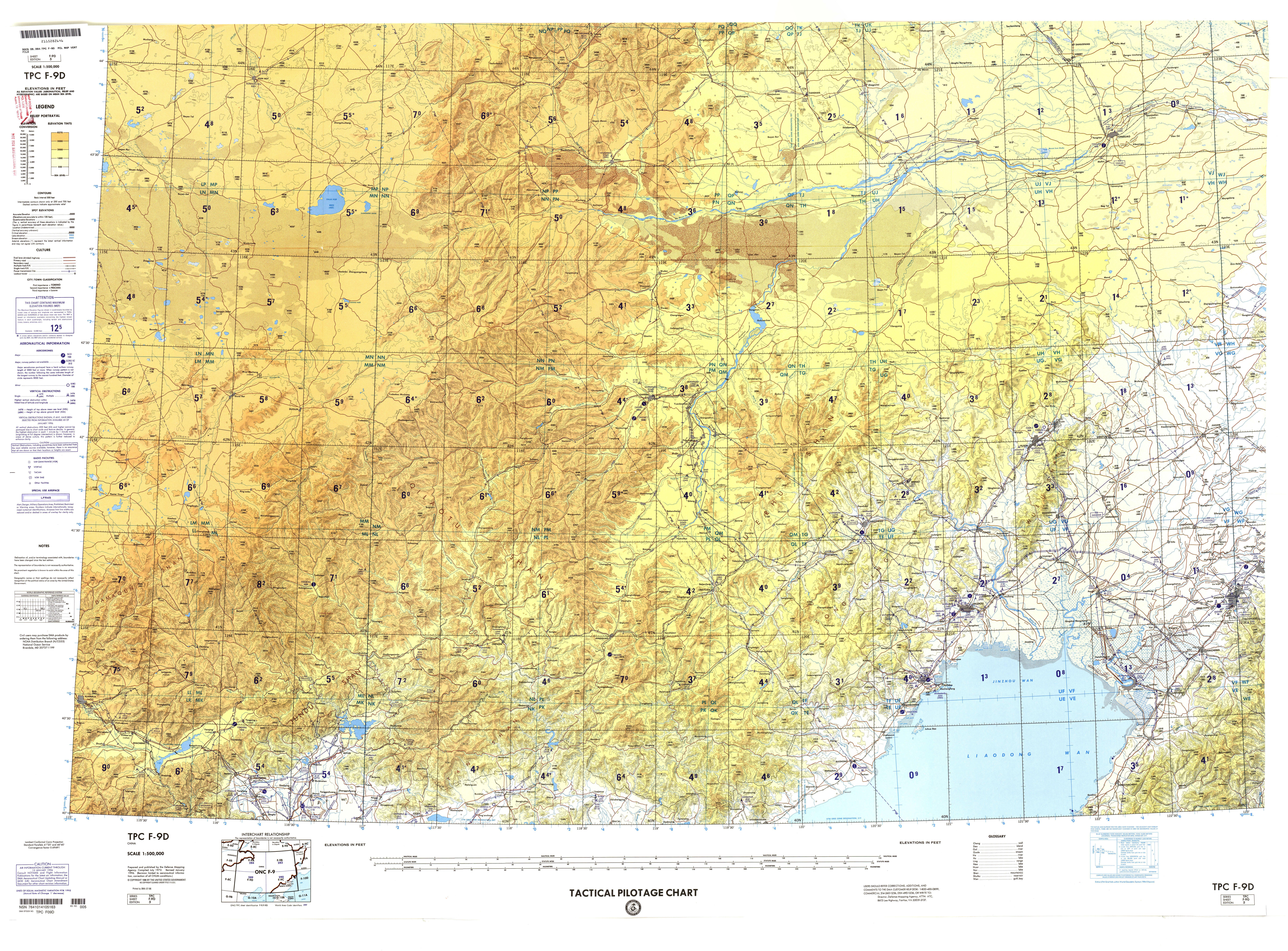 Tactical Pilotage Chart Series - World 1:500,000 Scale